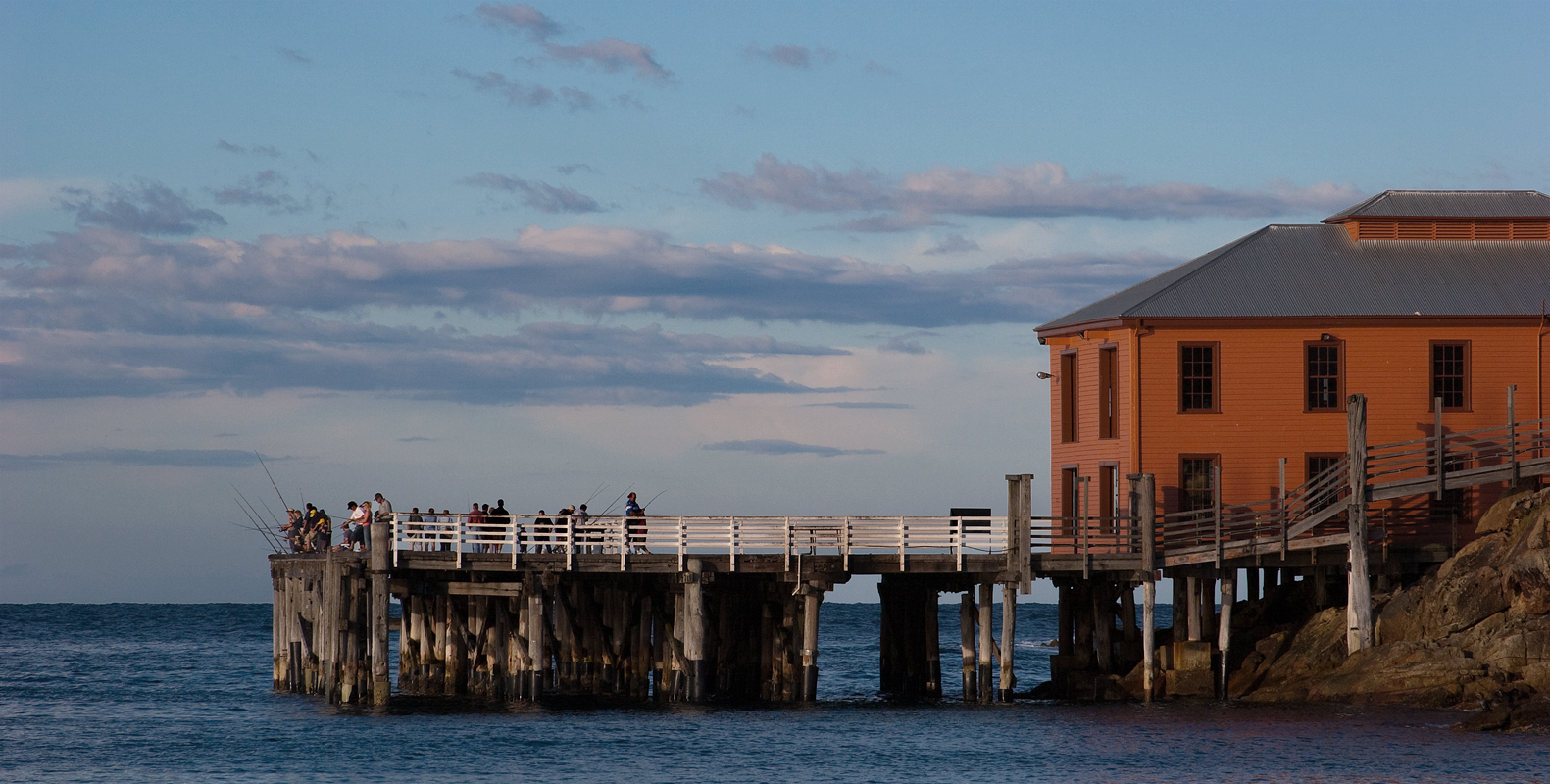 People fishing from Tathra wharf in 2005